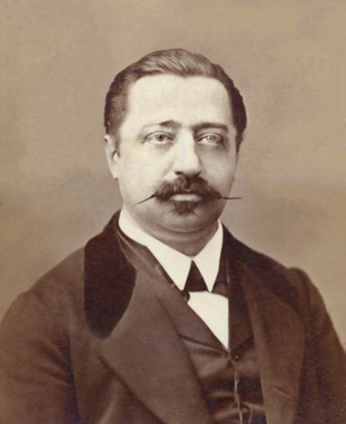 The belgian opera singer Luigi Agnesi (1833—1875)